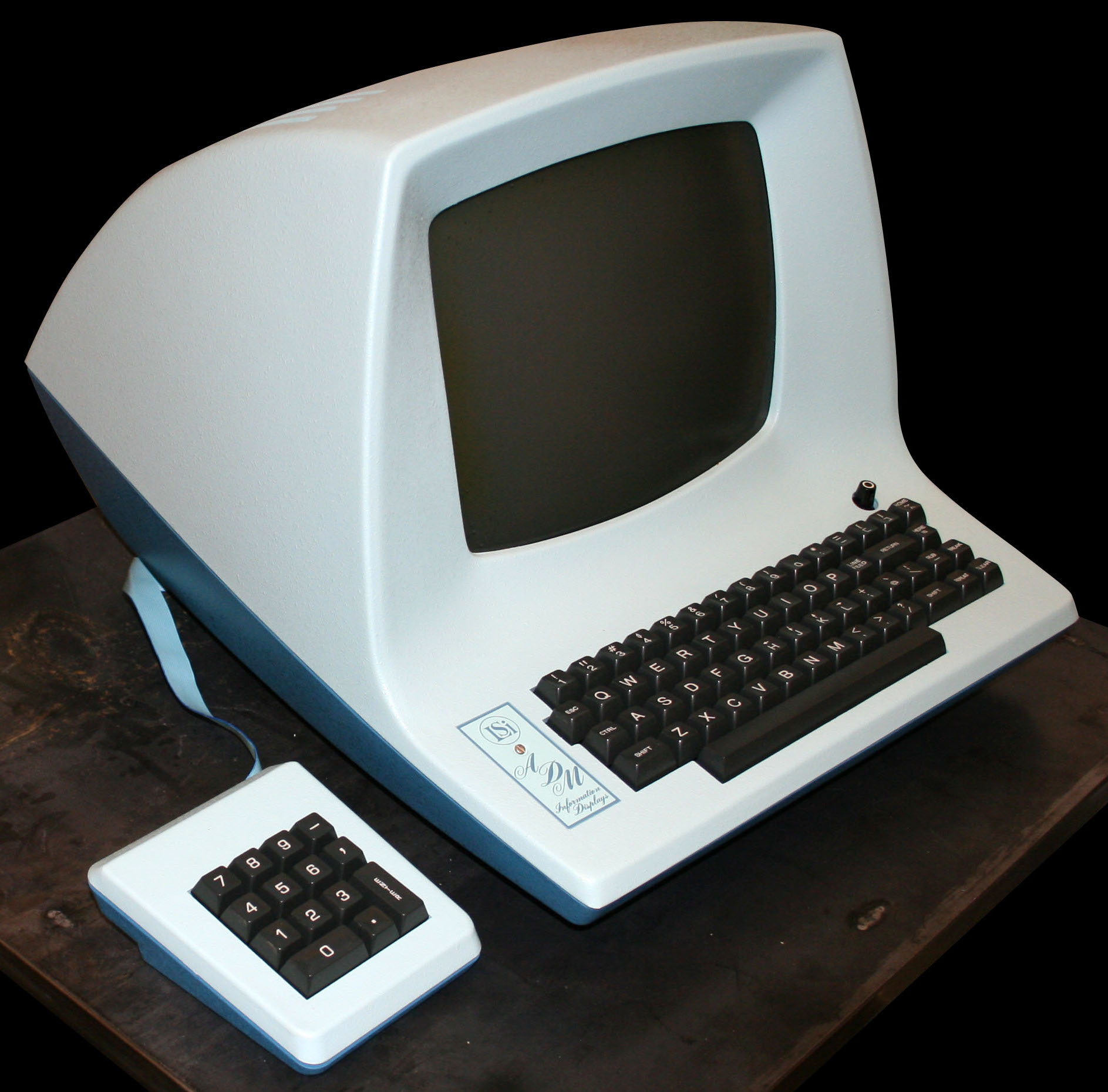 ADM-3A Mint-Blue (Rare) with keypad. Never been used.